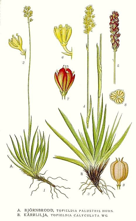 A. Tofieldia pusilla (Michx.) Pers. B. Tofieldia calyculata (L.) Wahlenb. Original Description A. Björnbrodd, Tofieldia palustris Huds. B. Kärrlilja, Tofieldia calyculata Wg.